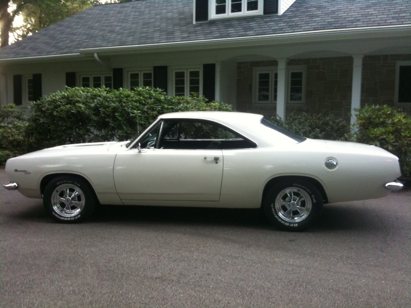 A picture of a 1967 plymouth barracuda coupe, also known as a notchback.